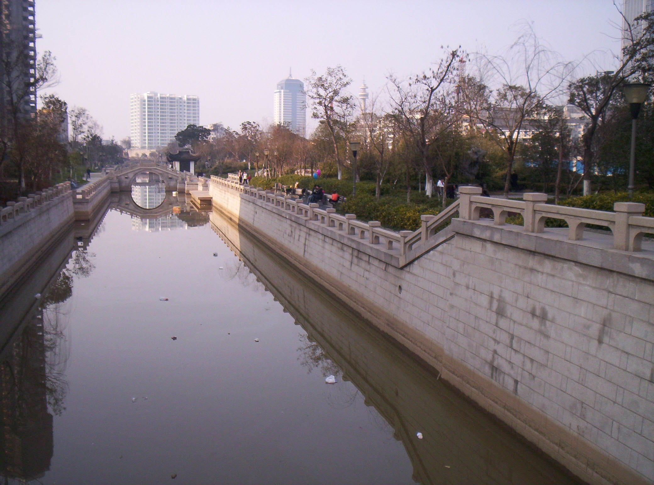 Changzhou